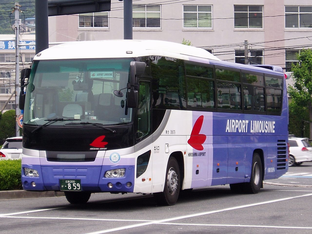 Hiroshima Dentetsu Bus 06679 "Airport Limousine" Isuzu ADG-RU1ESAN at Hiroshima Sta.